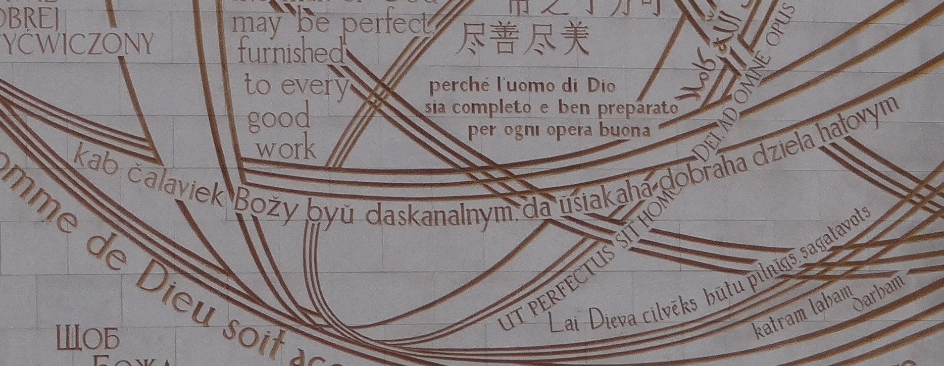 Pyershamayski District, Minsk, Belarus